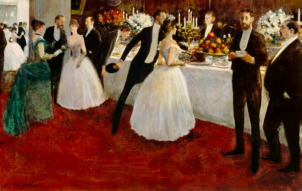 The Buffet